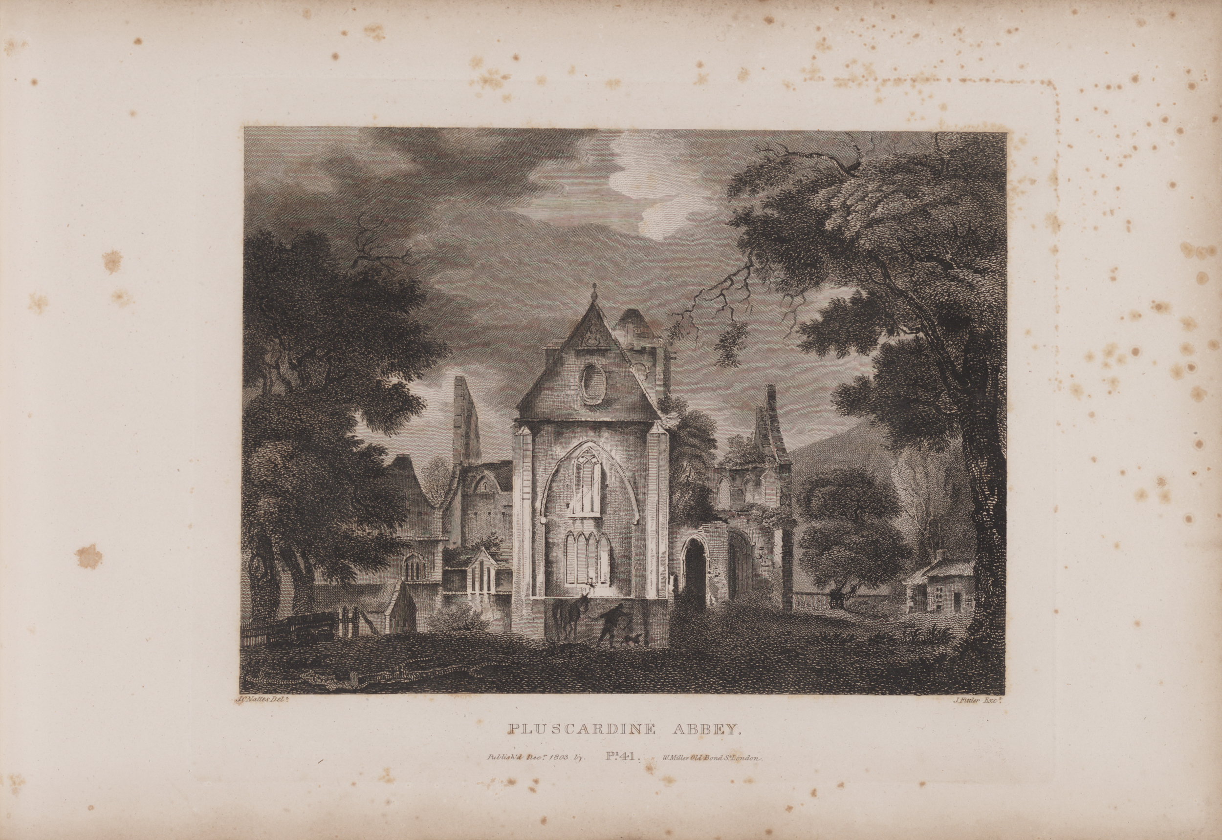 Plate XLI/b - John Claude Nattes made drawings of suitable scenes on the spot; etchings are by James Fittler.